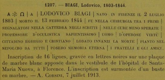 Epigrafe Lodovico Biagi